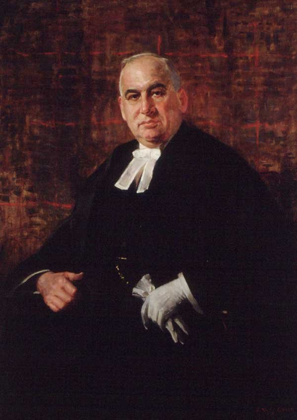 Hon. David Jamieson [Speaker of the Ontario Legislature, 1915-19]